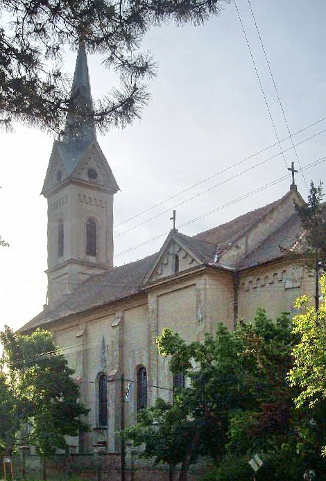 Catholic church in Žabalj, Vojvodina, Serbia .